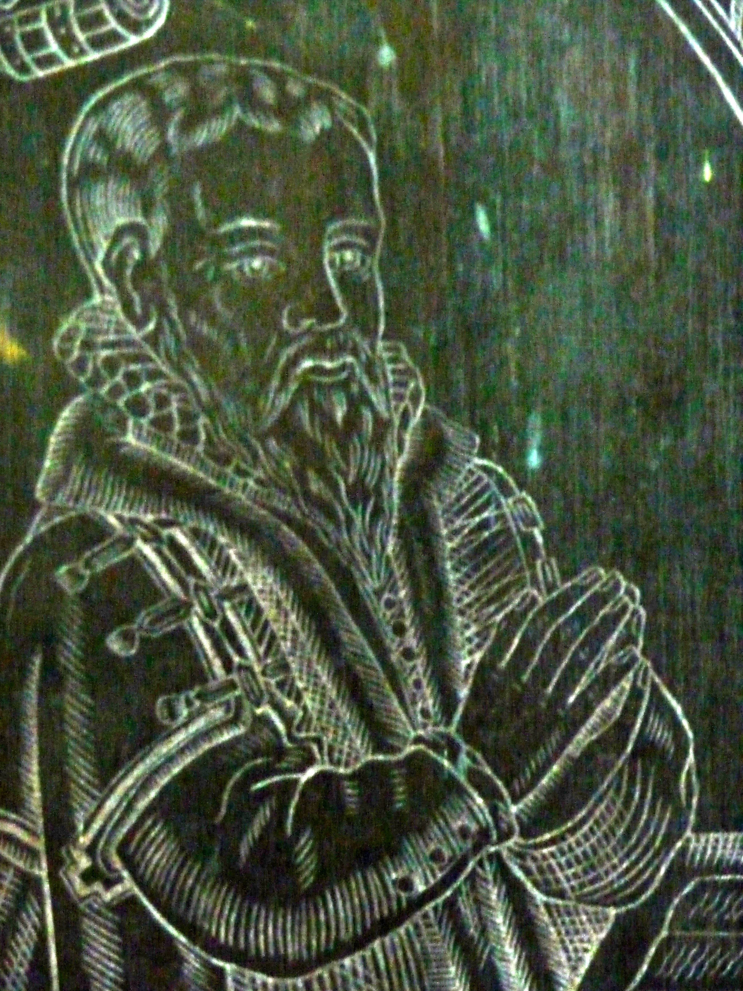 Detail of brass monument to William Dunch (1508–97) in St Peter's parish church, Little Wittenham, Oxfordshire (formerly Berkshire)